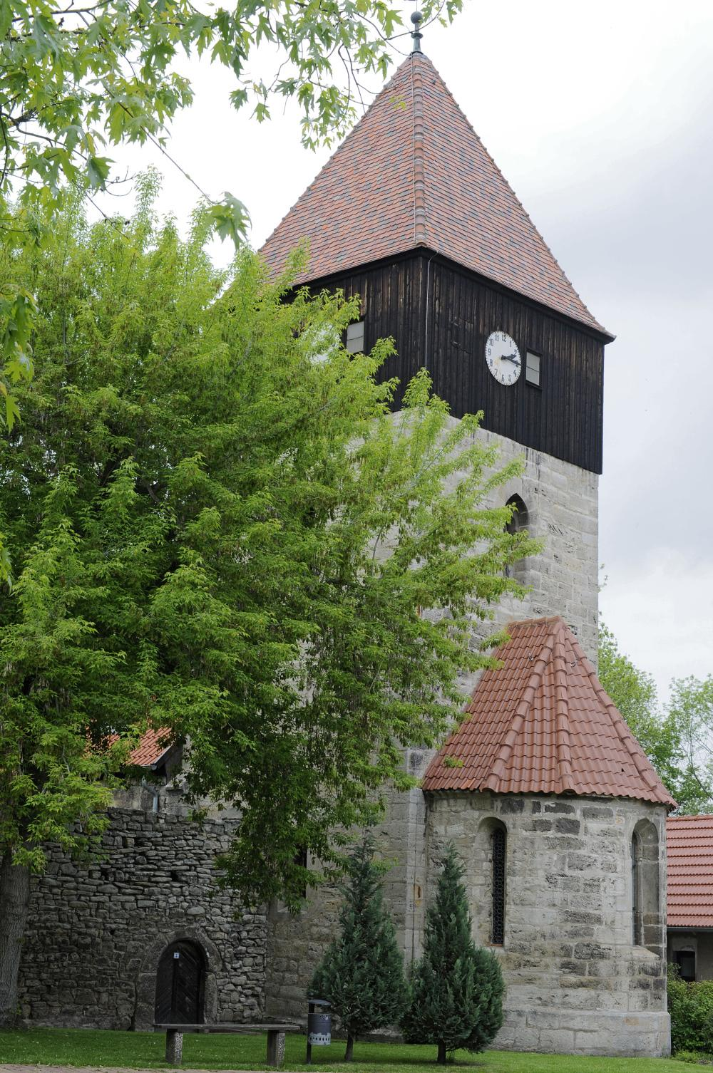 Fortified curch "St. Crucis" in Espenfeld